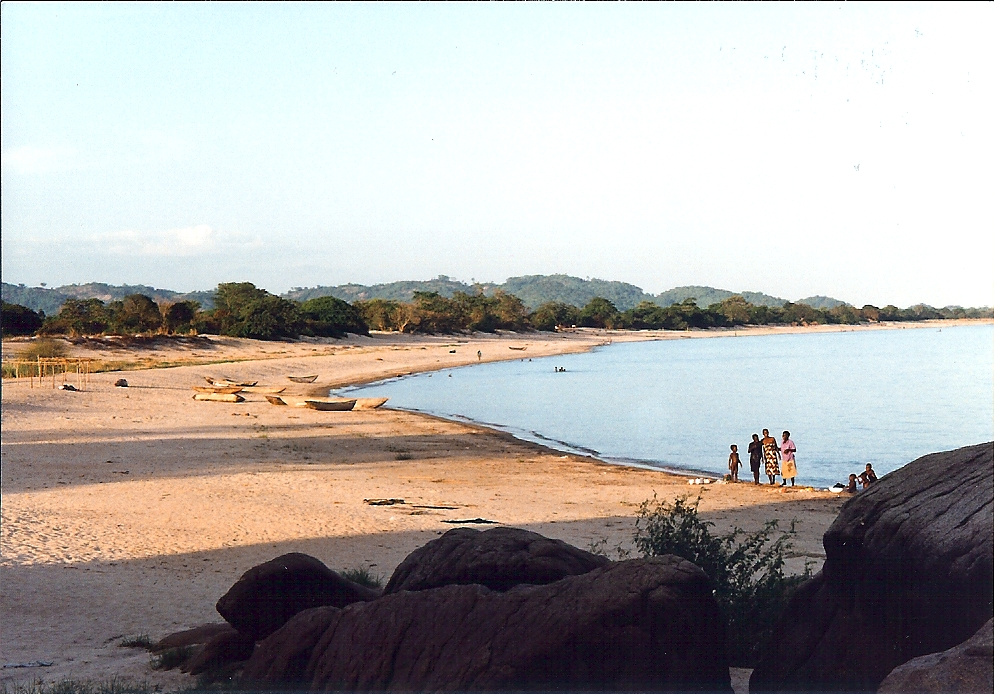 Ablutions in Lake Malawi at Mwaya Beach, between Nkhata Bay and Nkhotakota, Malawi. The children were bathing, the women washing clothes or pots - and insisted on posing for me several times as soon as they saw the camera. Dug-out canoes and drying racks (for fishing nets?) are visible on the beach. Taken mid-summer 1997 on film.